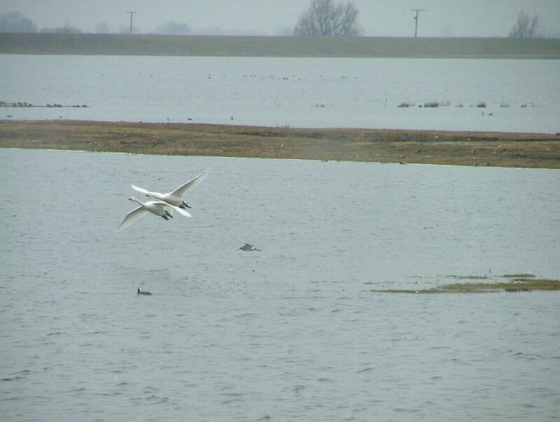 This picture of the Ouse Washes at Welney. It shows two of the migratory whooper swans (for which Welney is famous)taking off.